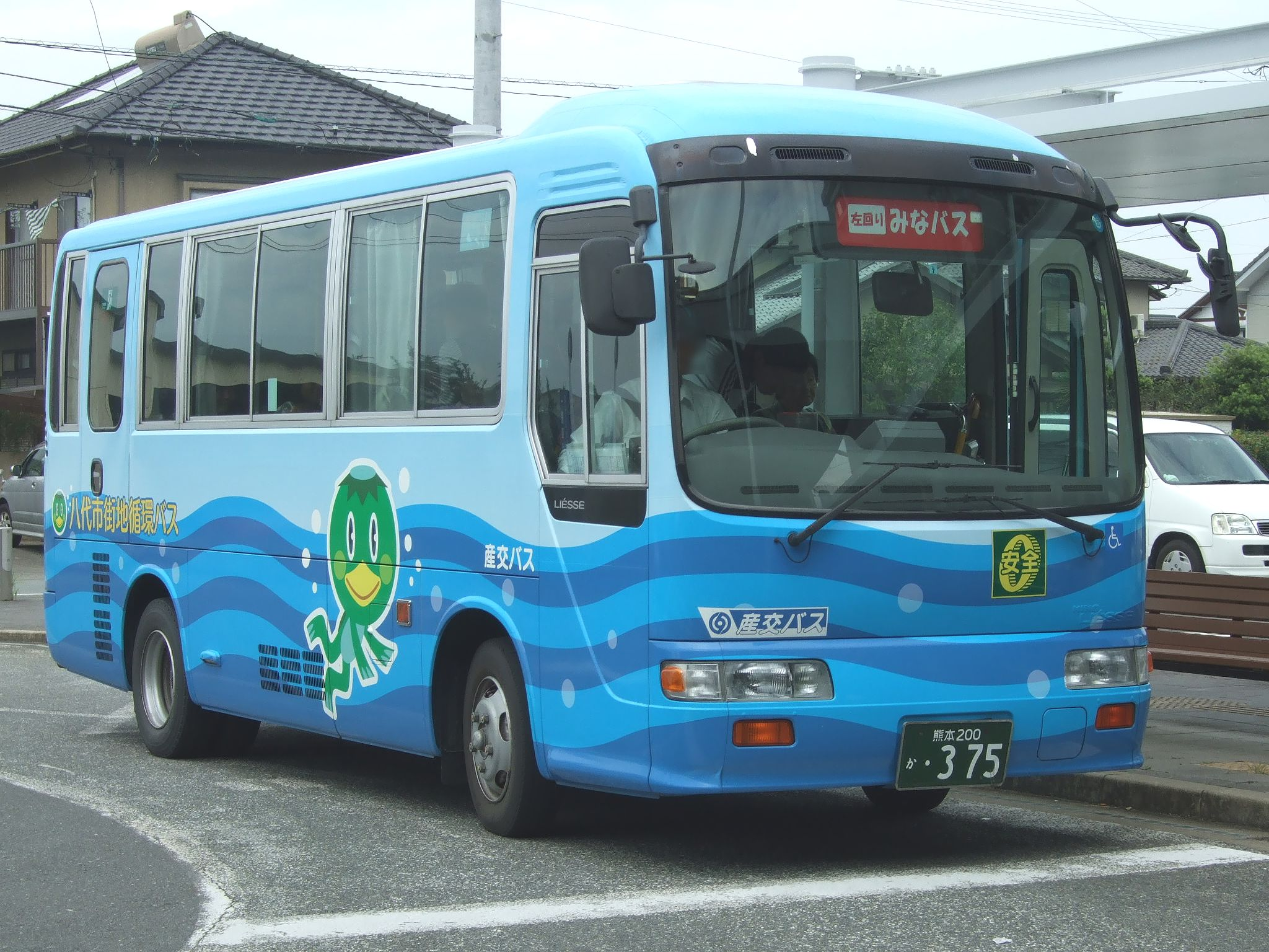 Mina Bus, Yatsushiro City community bus 八代市コミュニティバス「みなバス」